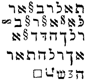 Figure 21. EE: Eoluth: The Seal. Scan of plate 21 of the 1880 translation of the 1849 Johann Scheible (editor) version of The Sixth And Seventh Books Of Moses. No Author given. "The sixth and seventh books of Moses: or, Moses' magical spirit-art, known as the wonderful arts of the old wise Hebrews, taken from the Mosaic books of the Cabala and the Talmud, for the good of mankind. Translated from the German, word for word, according to old writings". s.n., New York 1880. translation of Das sechste und siebente Buch Mosis, das ist: Mosis magische Geisterkunst, das Geheimniss aller Geheimnisse. Sammt den verdeutschten Offenbarungen und Vorschriften wunderbarster Art der alten weisen Hebräer, aus den Mosaischen Büchern, der Kabbala und den Talmud zum leiblichen Wohl der Menschen. Wort- und bildgetreu nach alten Handschriften mit 42 Tafeln. (Liepzig, 1849). Online scans avalilable at: The Sixth and Seventh Books of Moses and "The sixth and seventh books of Moses: or, Moses' magical spirit-art, known as the wonderful arts of the old wise Hebrews, taken from the Mosaic books of the Cabala and the Talmud, for the good of mankind